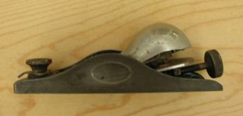 Photo of Block Plane